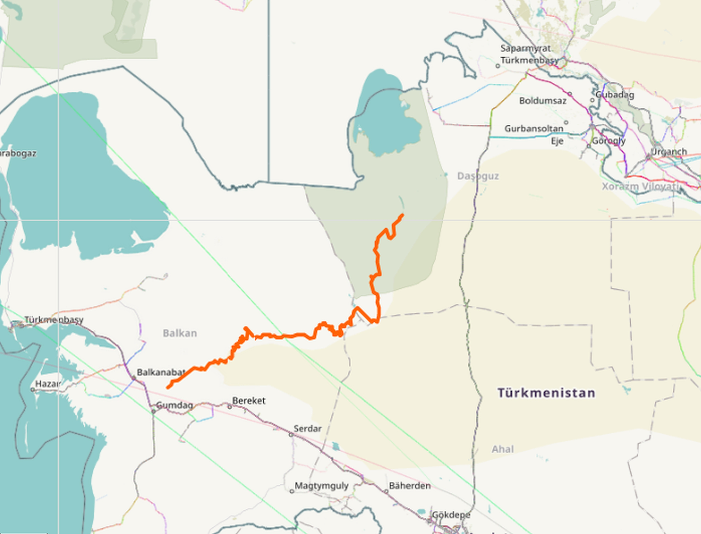 This map shows the contemporary river bed of the Uzboy river in Turkmenistan. It is created using the OpenStreetMap data. The Uzboy does not carry water over the whole length of the river bed.